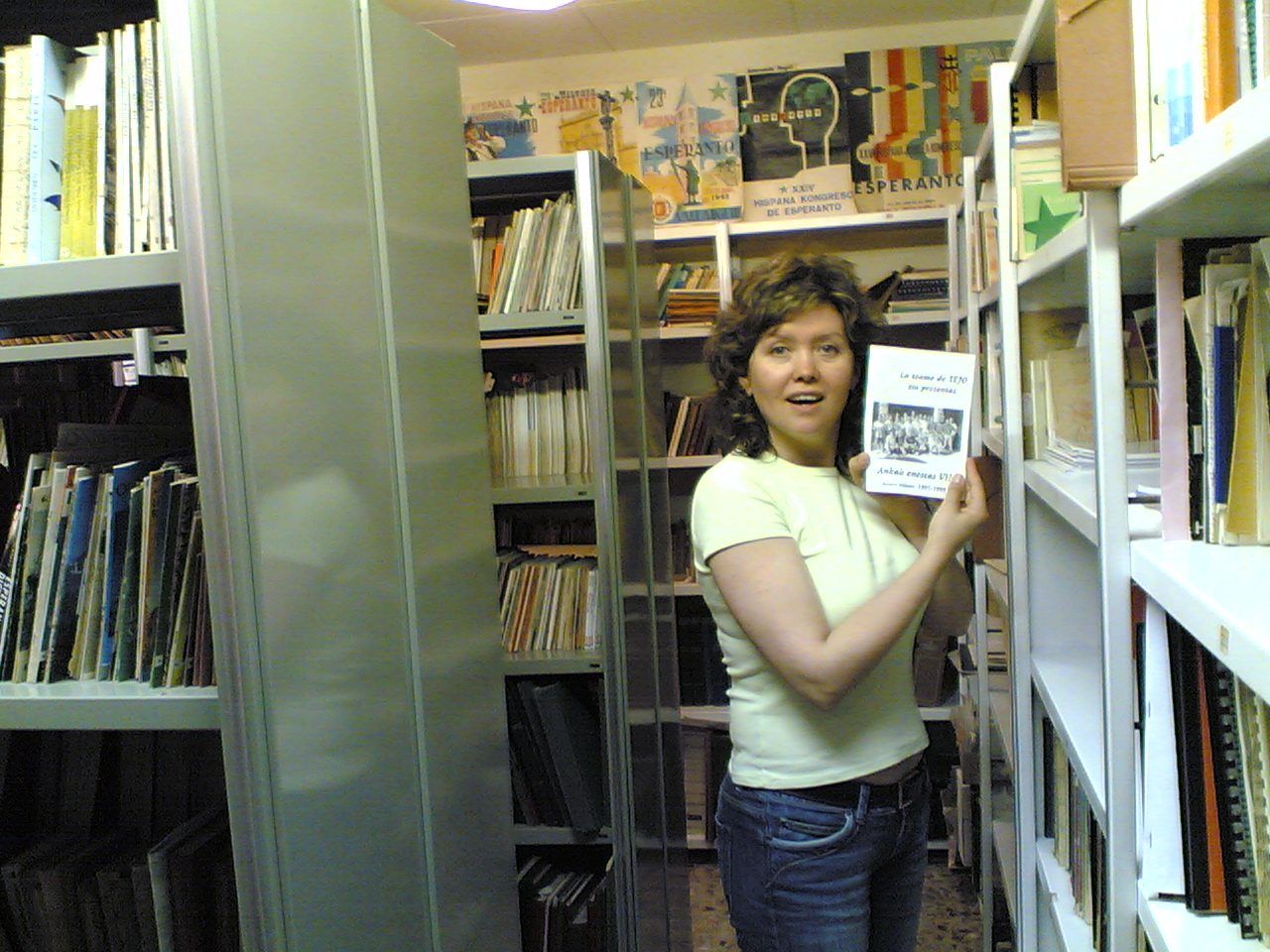 The library of the Spanish Esperanto Museum.